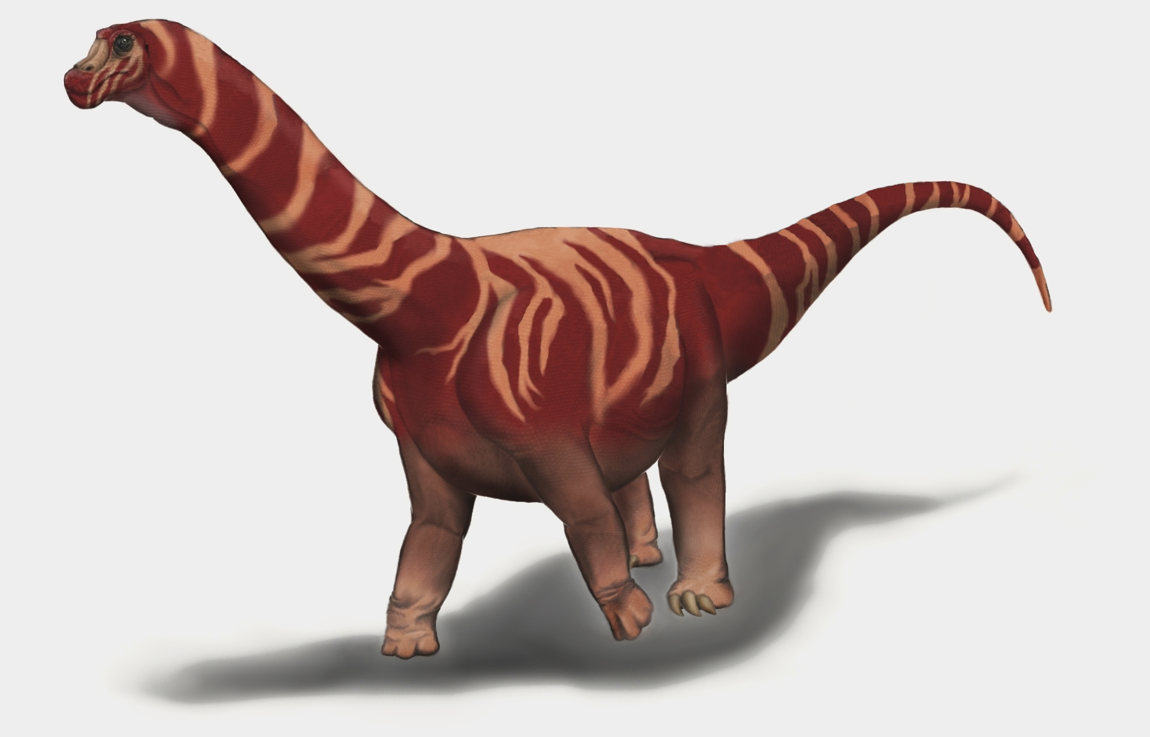 nemegto for wiki